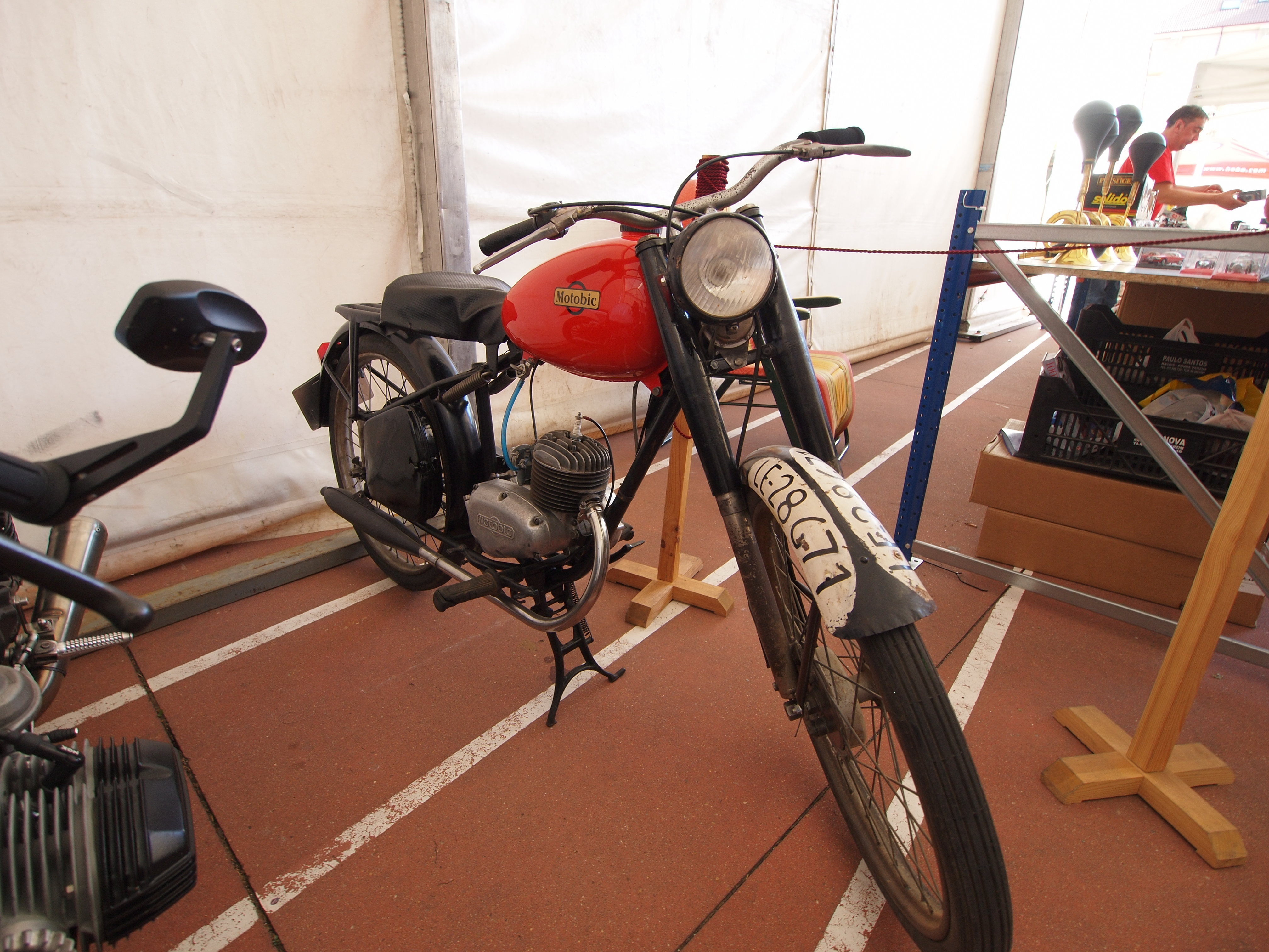 Motobic motorcycle (spanish built), at exhibition in the Feria del Motor de La Bañeza, August 2012